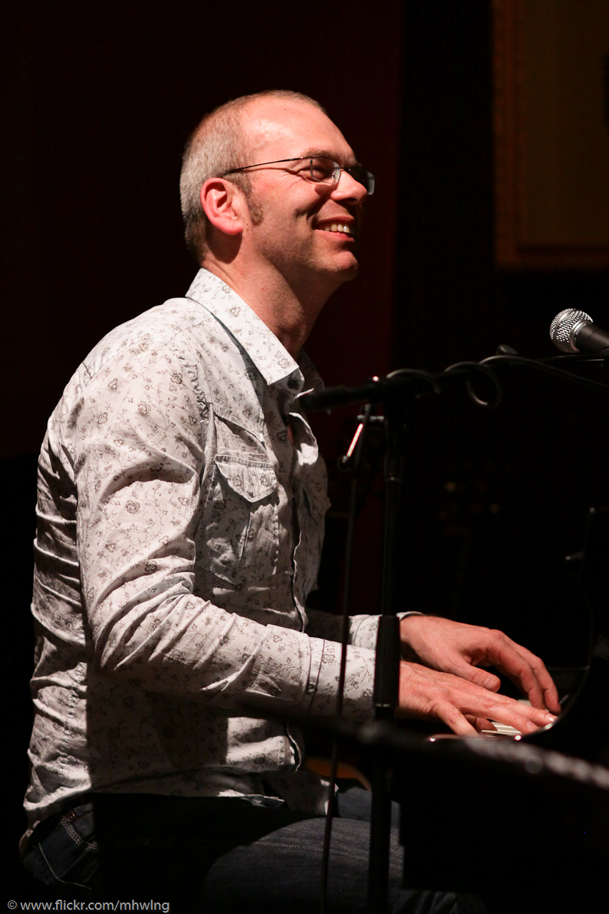 Bart de Win at Siso City by Meneer Frits in Eindhoven, The Netherlands - May 11th 2009